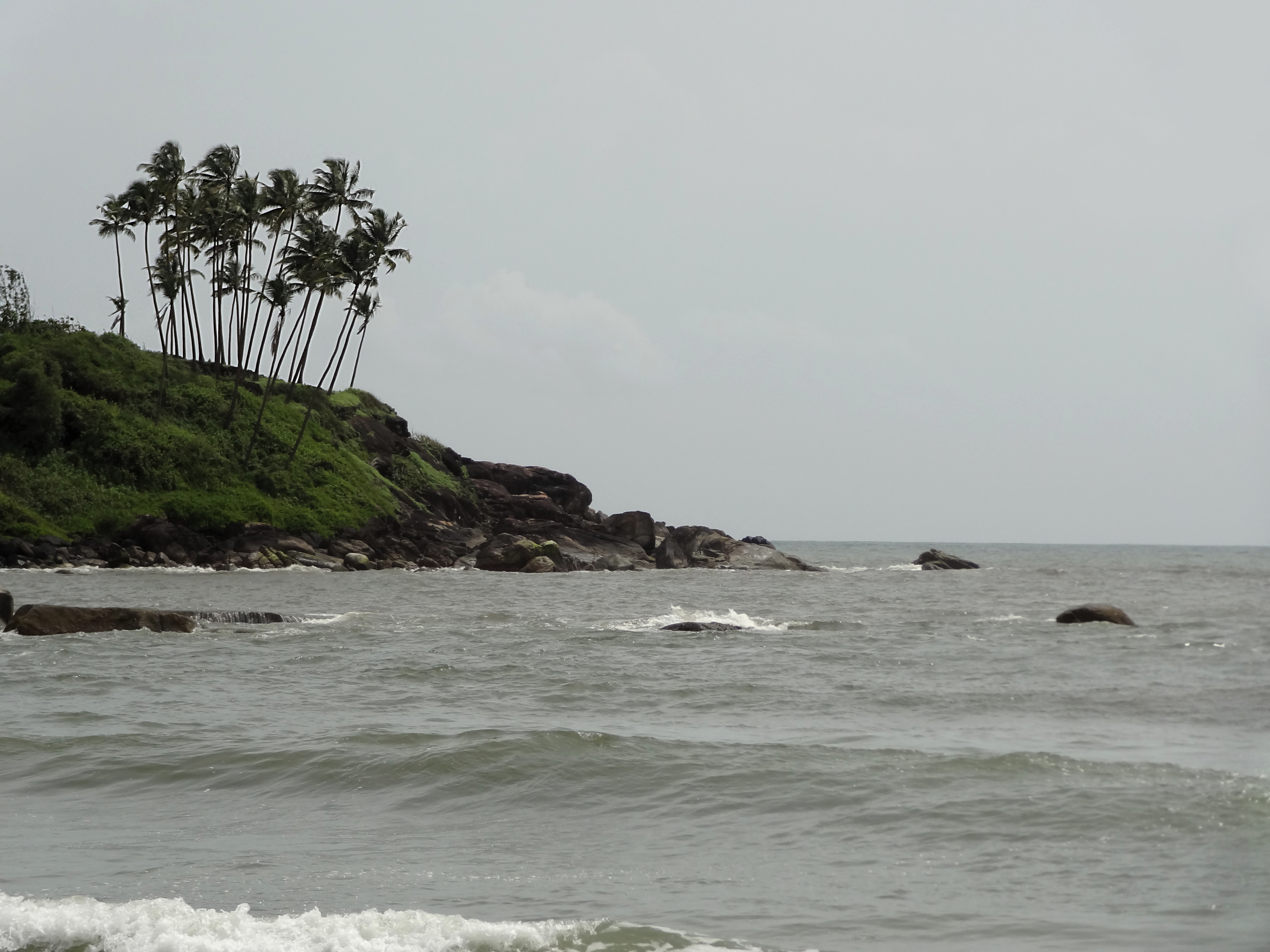 The Arabian sea in India- Goa - Palolem beach.